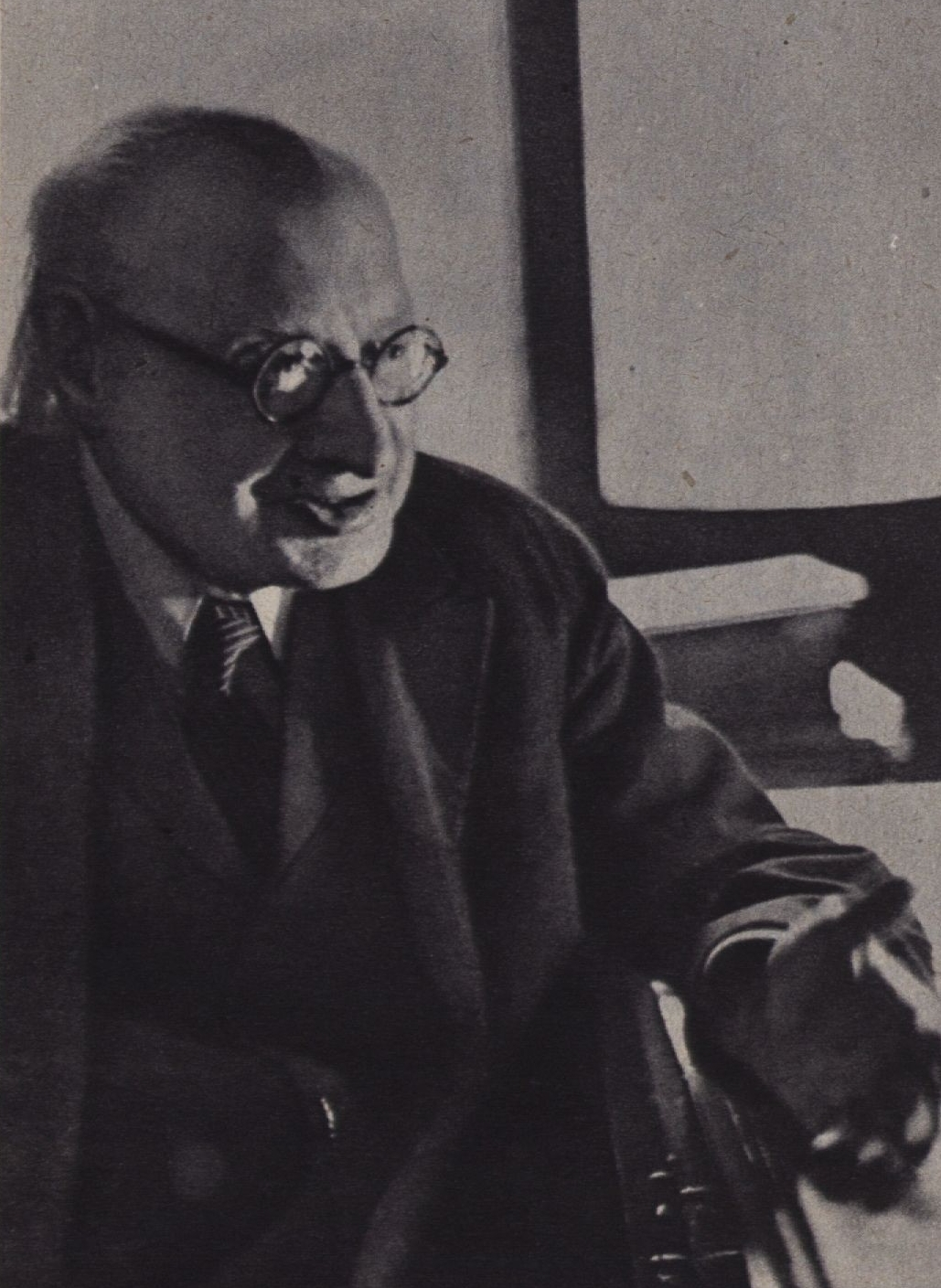 Karl Glossy (1856–1937), Austrian literary historian.